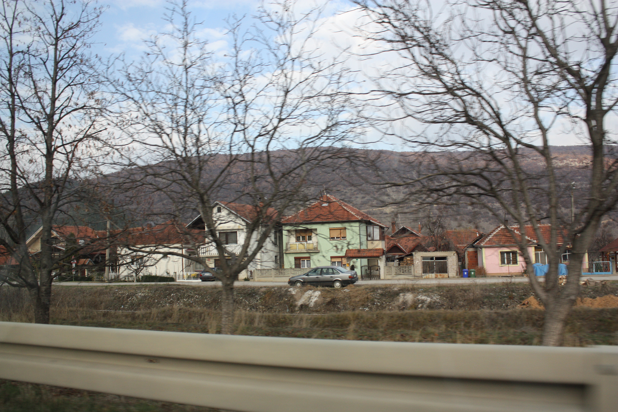 View of Zeljusa village, Serbia from the European route E80